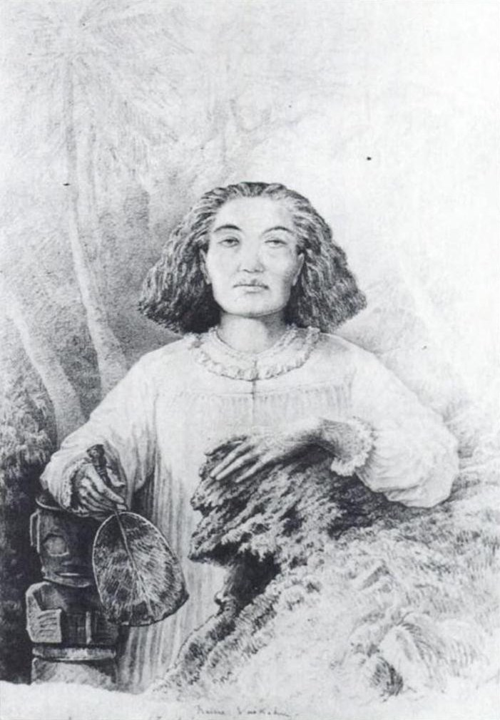 Escale de La Flore aux Iles Marquises. Queen Vaekehu, drawing by Pierre Loti, 1872.